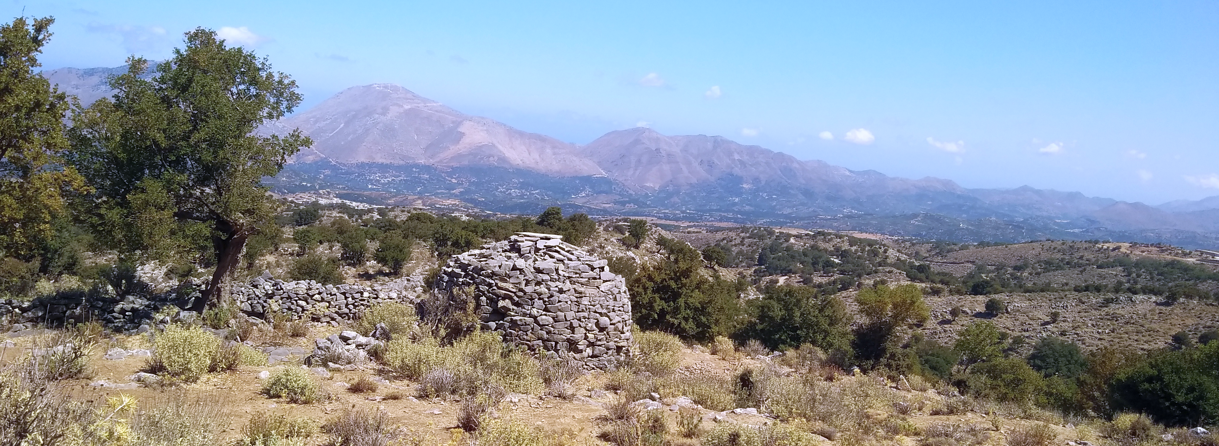 A traditionale shepards' hut nerby Livadia (Crete, Greece)